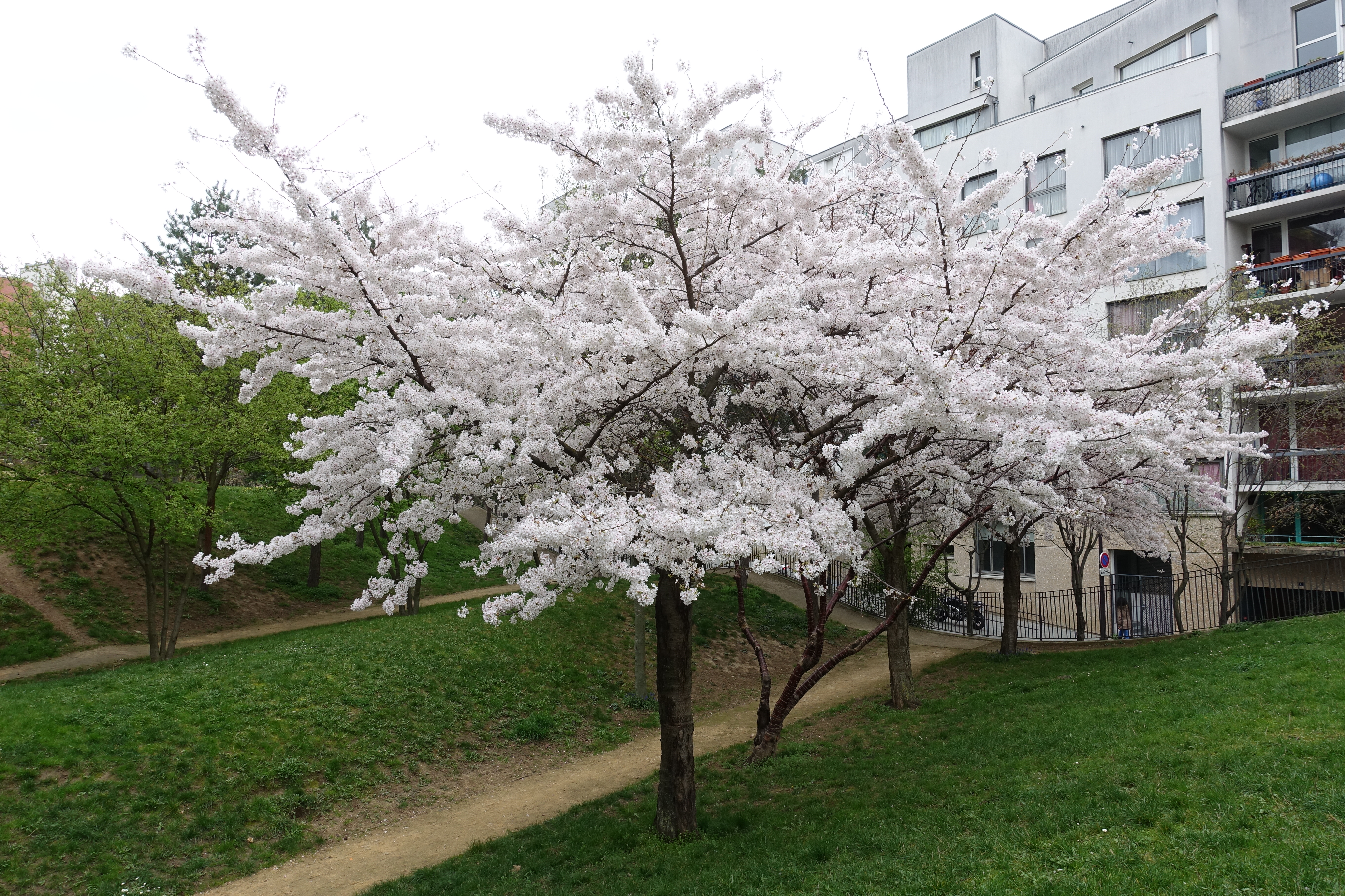 Cherry tree in bloom @ Jardin de la ZAC Alésia-Montsouris @ Paris